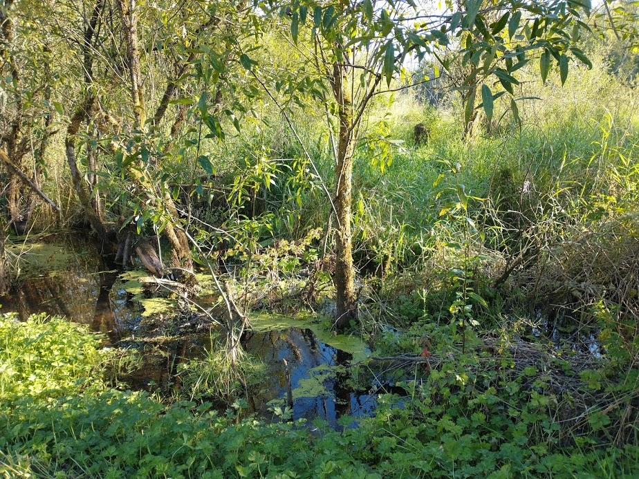 Big Soos Creek near Soos Creak trail.